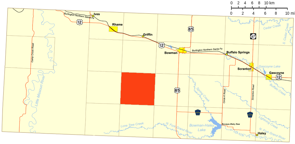 Map of Bowman County, ND, with Amor Township highlighted.